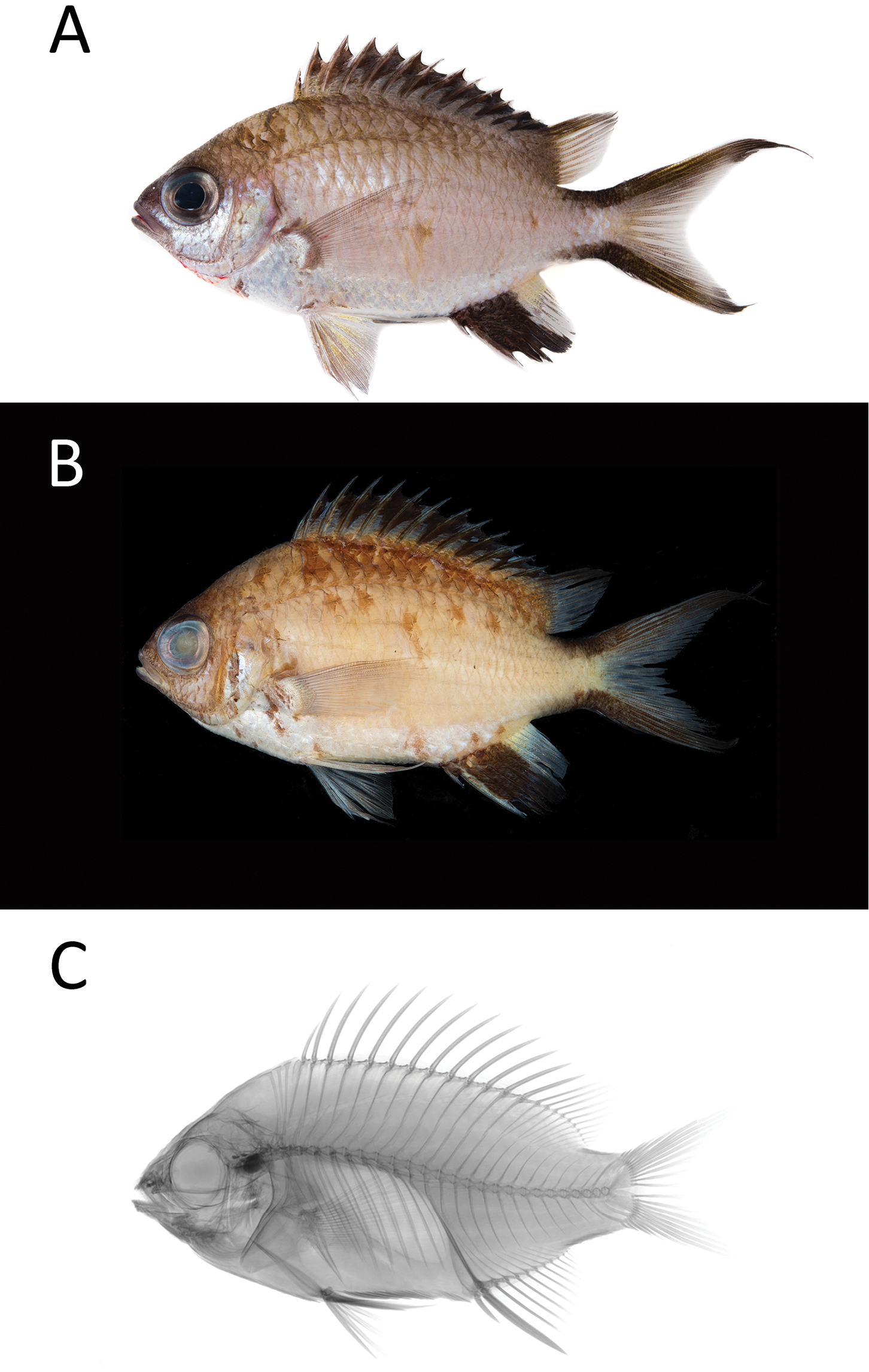 Fig 1. Chromis gunting Arango, Pinheiro, Rocha, Greene, Pyle, Copus, Shepherd & Rocha, 2019; sp. n. PNM 15357 a holotype shortly after death, 67.69 mm SL, photograph LA Rocha b preserved holotype, photograph JD Fong c radiograph of holotype by JD Fong.